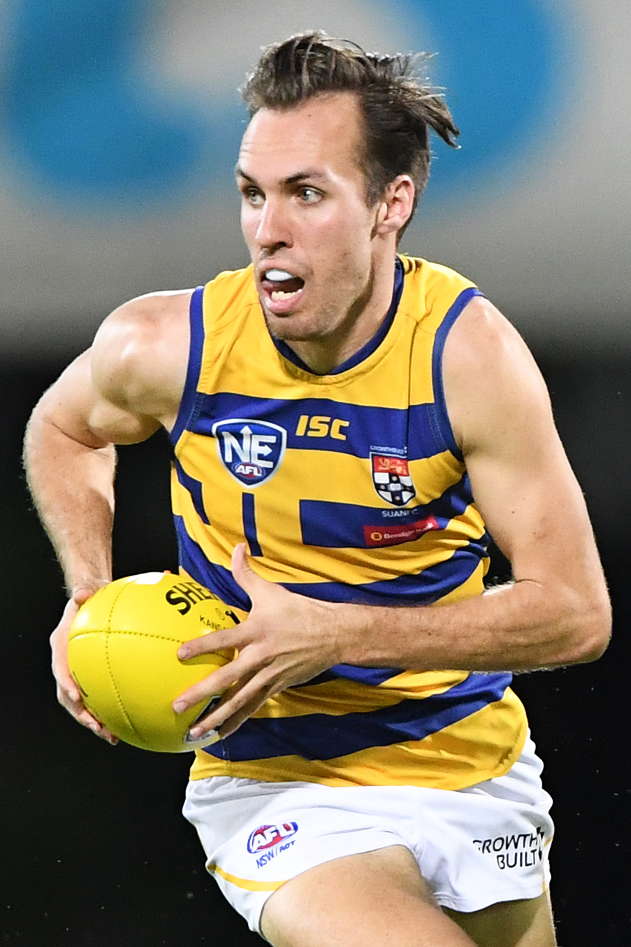 Jack Hiscox of Sydney University during the 2019 NEAFL round 19 match between NT Thunder and Sydney University at TIO Stadium on Saturday, 10 August 2019 in Darwin, Northern Territory.